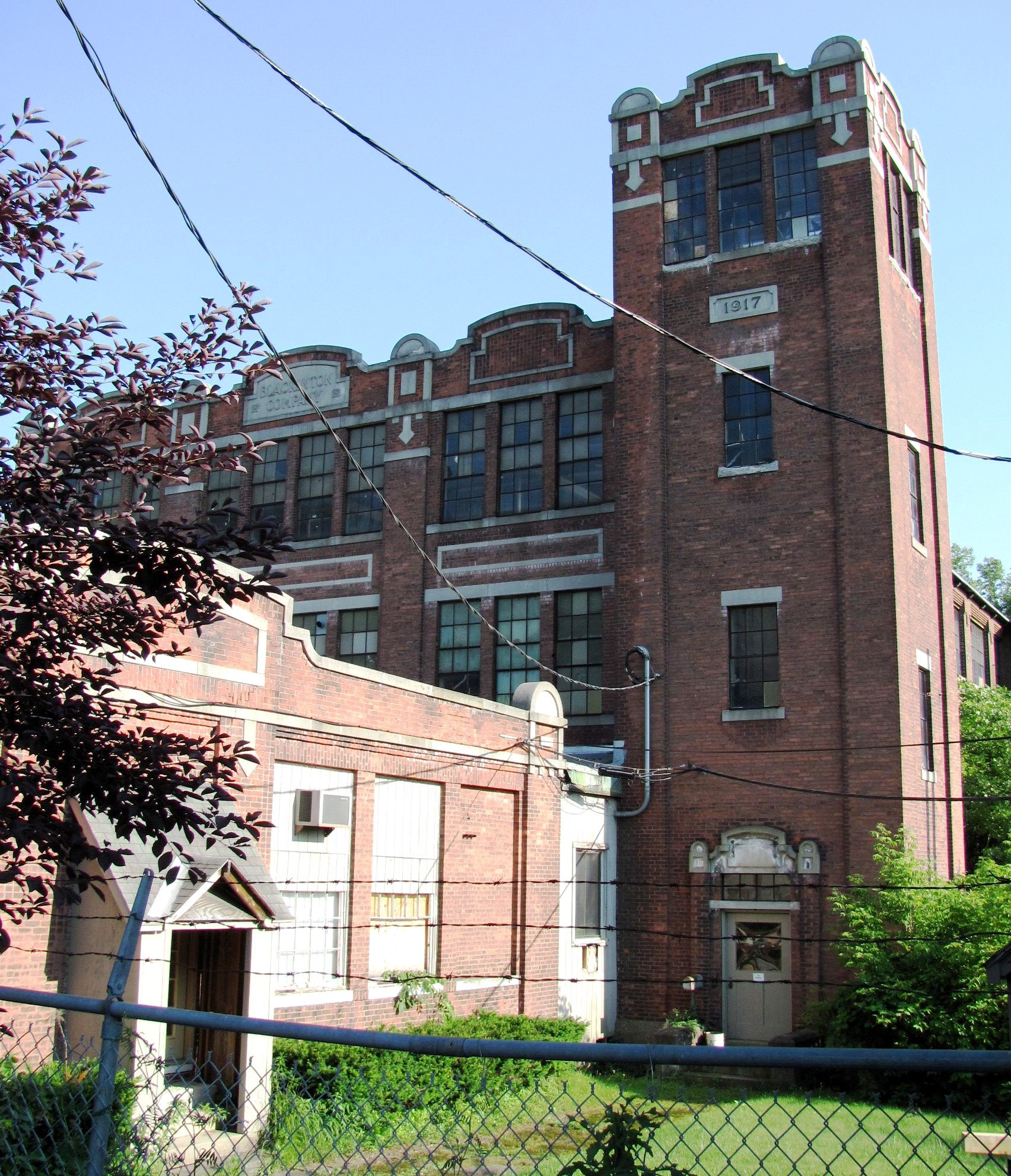 Blackinton Company, North Adams Massachusetts The Blackinton Company, founded in 1821 by Sanford Blackinton, Rufus Wells and J.L White, became one of the largest manufacturers of woolen goods in Western Massachusetts. By the early 1900s The neighborhood around the mill was a self-contained community, with its own school, jail, stores, post office, library and fire department, and the people there considered themselves be residents of "Blackinton", not North Adams. The mill closed in 1950. (Source: Oehler, Kay; Sheppard, Stephen C.; Benjamin, Blair and Li, Lily. "Shifting Sands in Changing Communities: The Neighborhoods, Social Services, and Cultural Organizations of North Adams, Massachusetts" and "Sanford Blackinton")